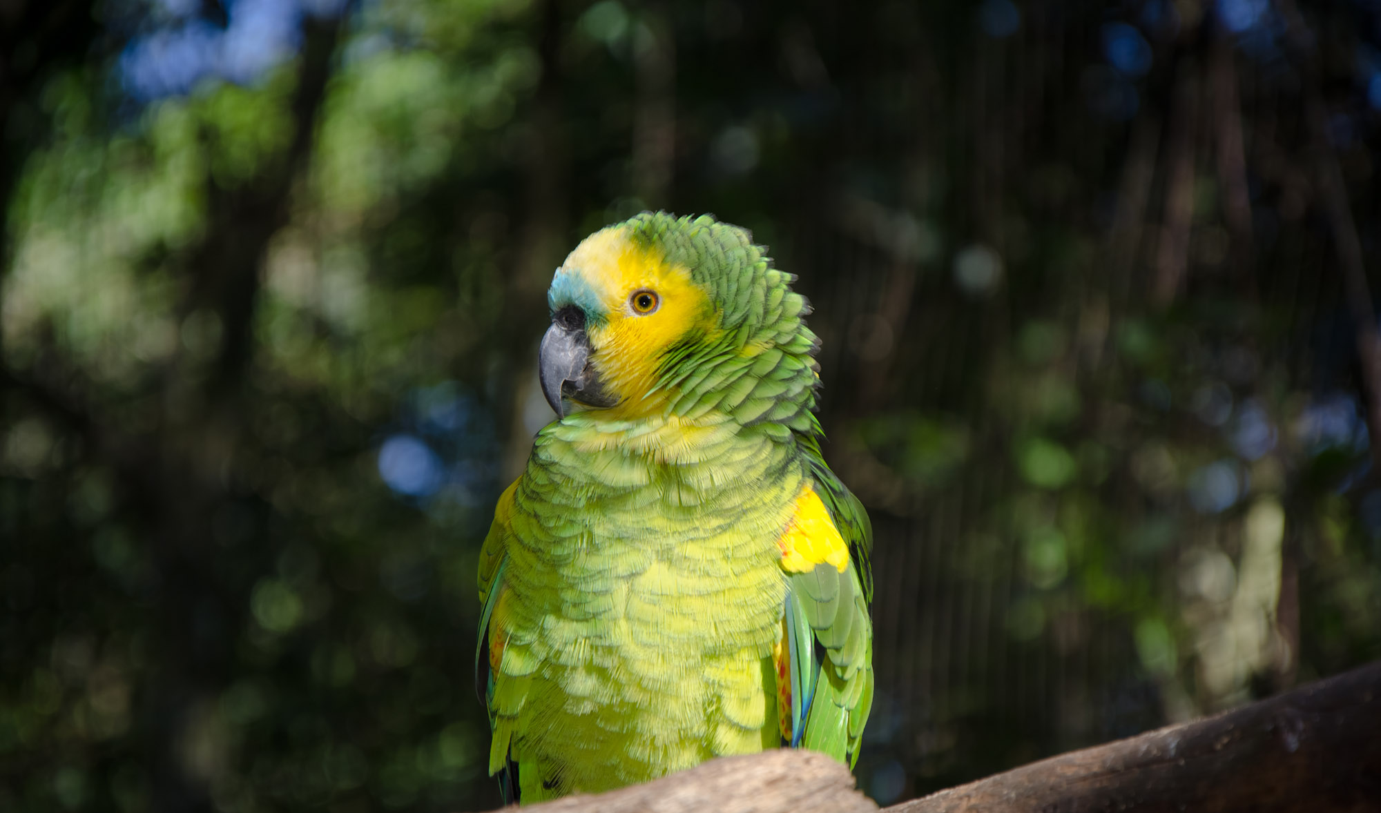 A Blue-fronted Amazon in captivity.